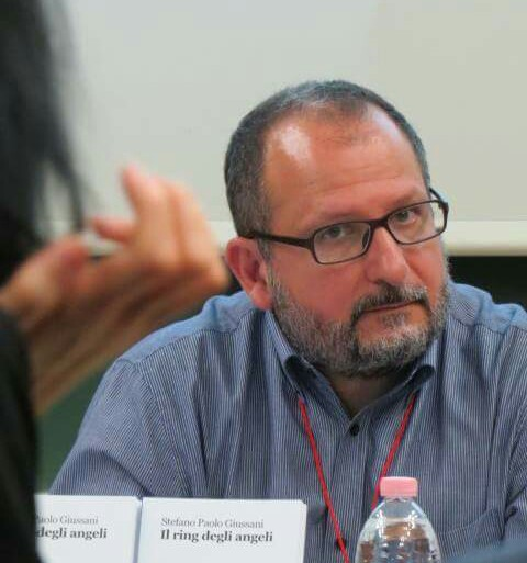 Italian journalist, blogger and writer